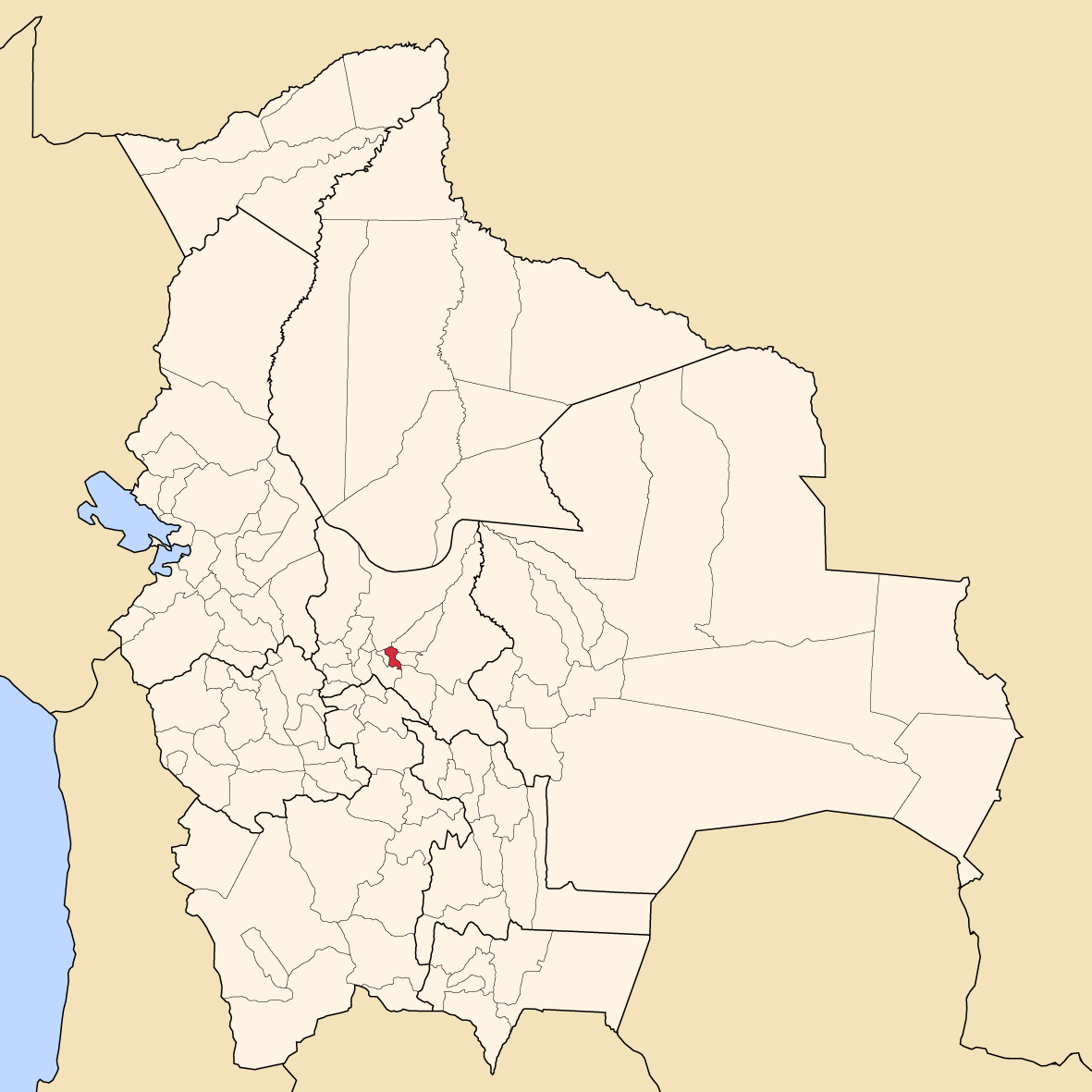 Map of Bolivia showing Punata province